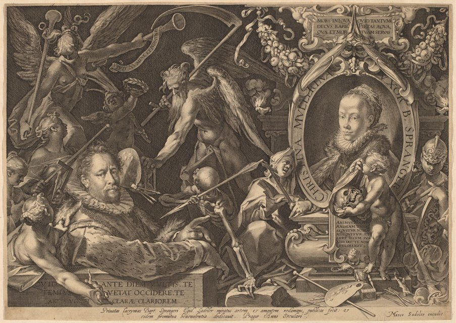 Bartholomaeus Spranger and his Late Wife Christina Muller by Aegidius Sadeler II, after Bartholomaeus Spranger, 1585-1629. Engraving on laid paper, 29.3 x 41.4 cm, National Gallery of Art, Washington